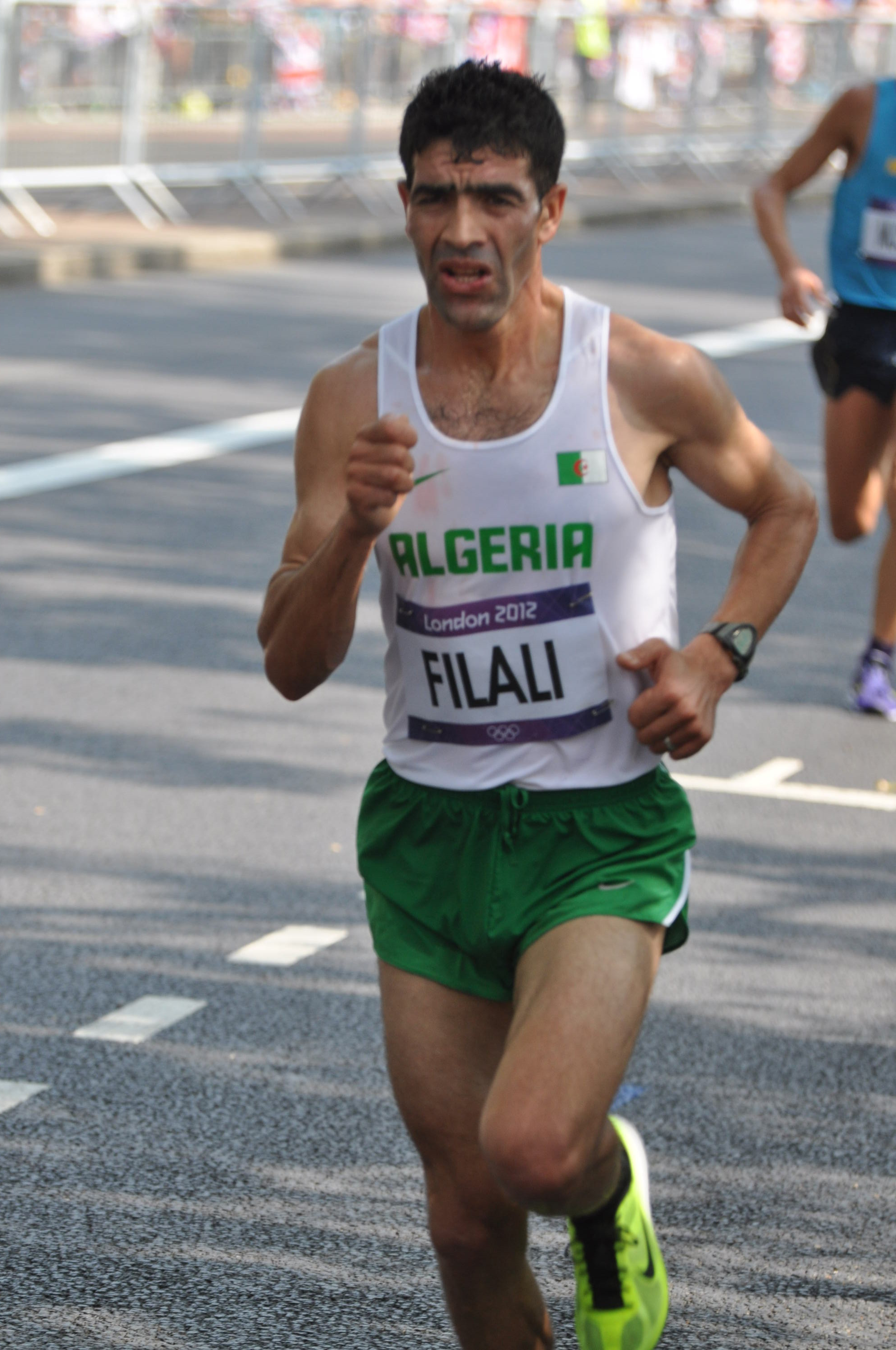 The men's marathon of the 2012 Summer Olympics in London, UK took place on an Olympic marathon street course on Sunday 12th August 2012 at 11:00. This was the final day of the 30th Olympic Games. The London 2012 marathon course is the standard Olympic distance of 26 miles 385 yards and consists of one short lap of approx 2.2 miles followed by three longer laps of 8 miles. The course began on The Mall and travelled past several of the most famous London landmarks. The start/finish line was near the Victoria Memorial. These photographs were taken at the Victoria Embankment. This featured several times on the looped course. The approximate location from the photographs is shown in the Google StreetView Link below. Stephen Kiprotich won in 2 hours, 8 minutes, 1 second as he pulled away from the Kenyan duo of Abel Kirui and Wilson Kiprotich Kipsang. These photographs are unofficial photographs. They are not endorsed by London 2012. There are not commercially available. They are available for use under a Creative Commons License. Please link back to the photograph on my Flickr account if you use the image.